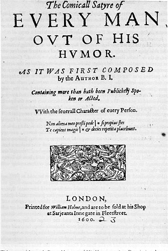 Title page of the 1602 quarto print of Every Man out of His Humour